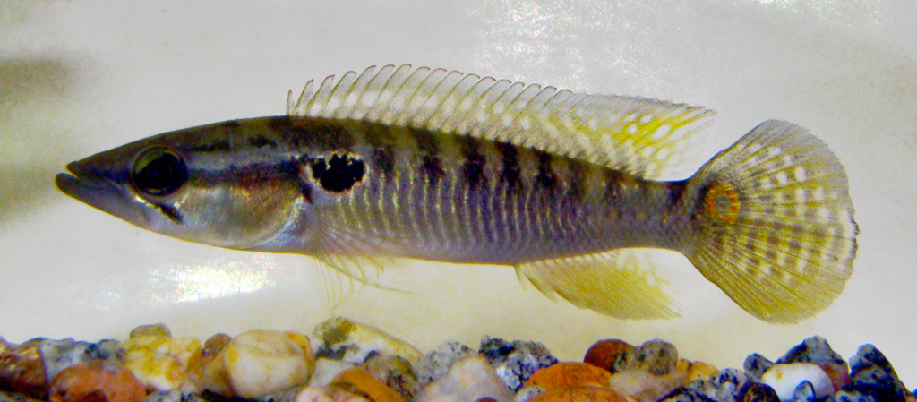 Crenicichla punctata from Pelotas River, Rio Grande do Sul, Brazil, photographed on December 2008.